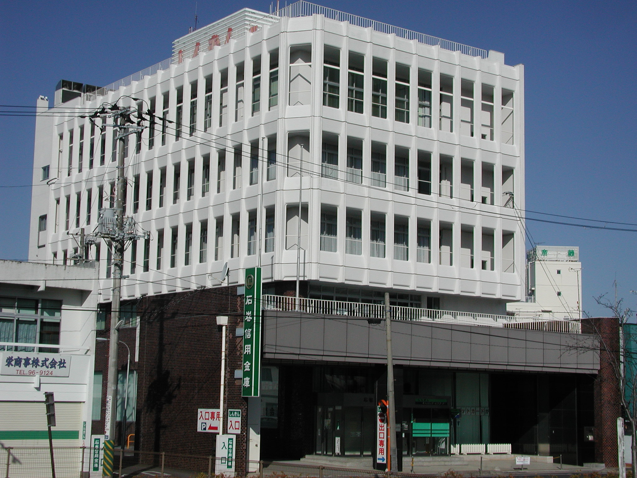 The Ishinomaki Shinkin Bank Head shops